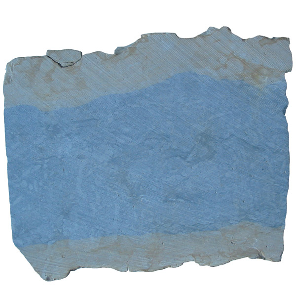 Upper and lower parts are chemically weathered. Rock is from Estonia, Silurian system.